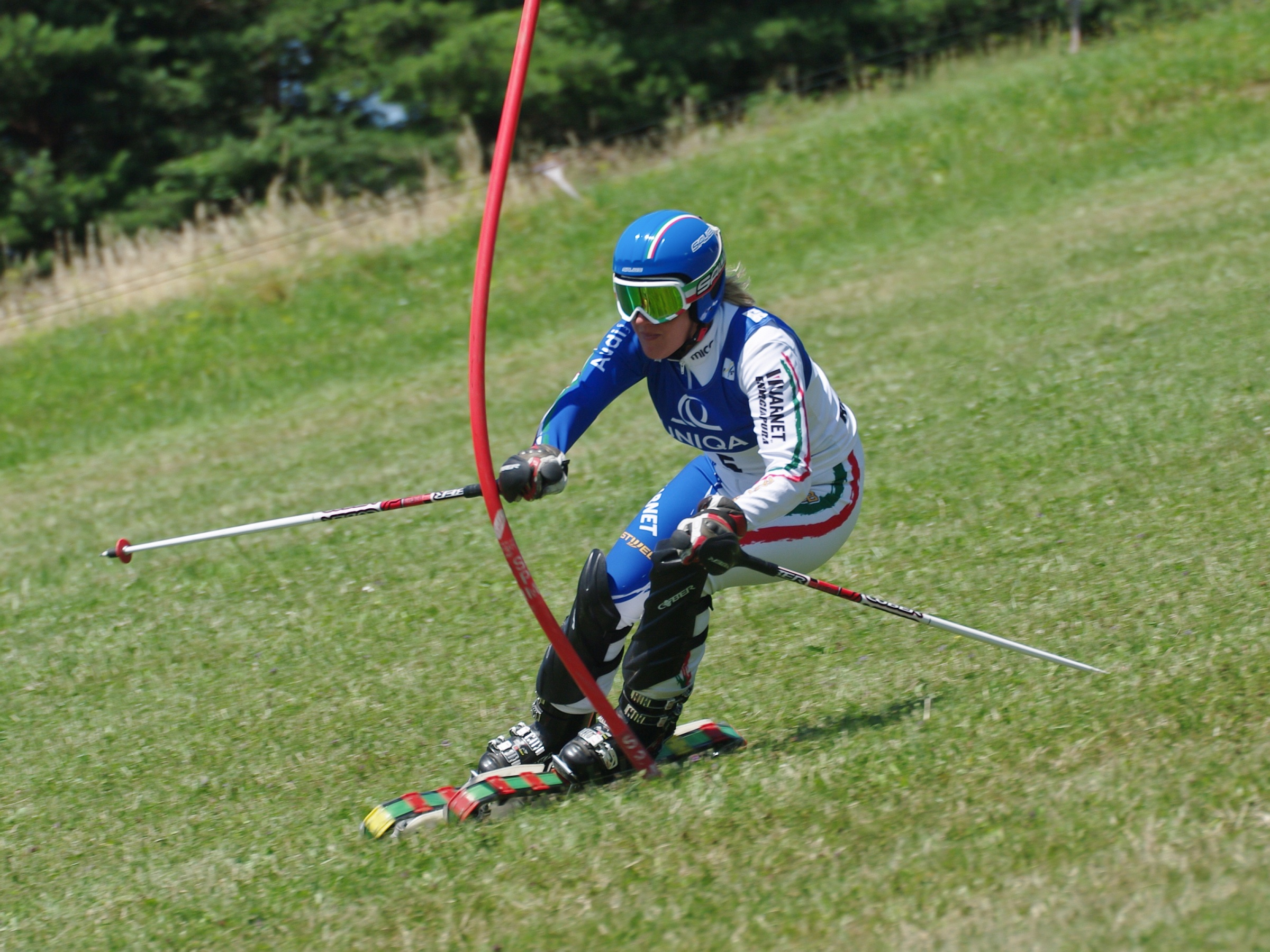 Italian Grass skier Antonella Manzoni in the Slalom run of the FIS Supercombined in Rettenbach on 10 July 2011.